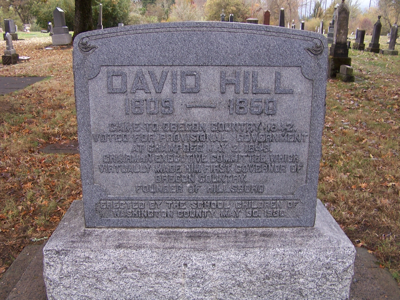 DAVID HILL 1809-1850 CAME TO OREGON COUNTRY 1842. VOTED FOR PROVISIONAL GOVERNMENT AT CHAMPOEG MAY 2, 1843. CHAIRMAN EXECUTIVE COMMITTEE WHICH VIRTUALLY MADE HIM FIRST GOVERNOR OF OREGON COUNTRY. FOUNDER OF HILLSBORO Aboutmovies 04:11, 5 November 2006 (UTC)